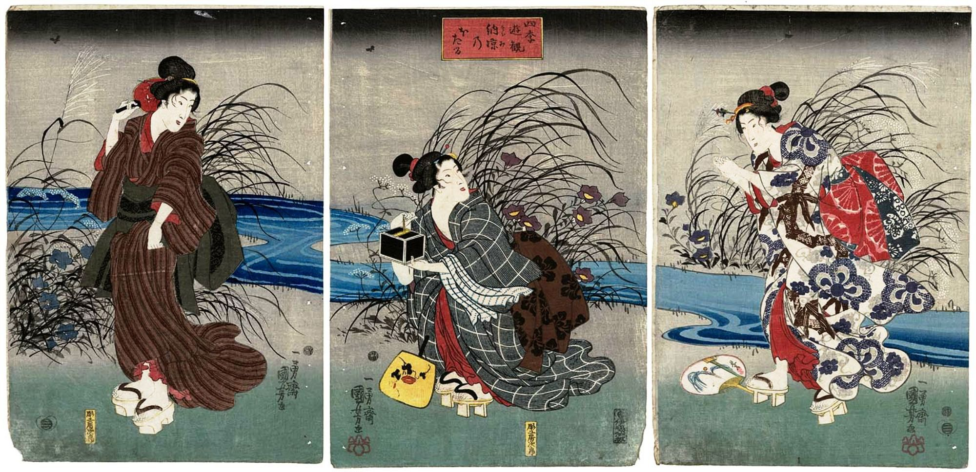 Japanese woodblock print, Catching Fireflies in the Cool of the Evening (Suzumi no hotaru), from the series Excursions in the Four Seasons (Shiki yûkan) by Utagawa Kuniyoshi, 1843